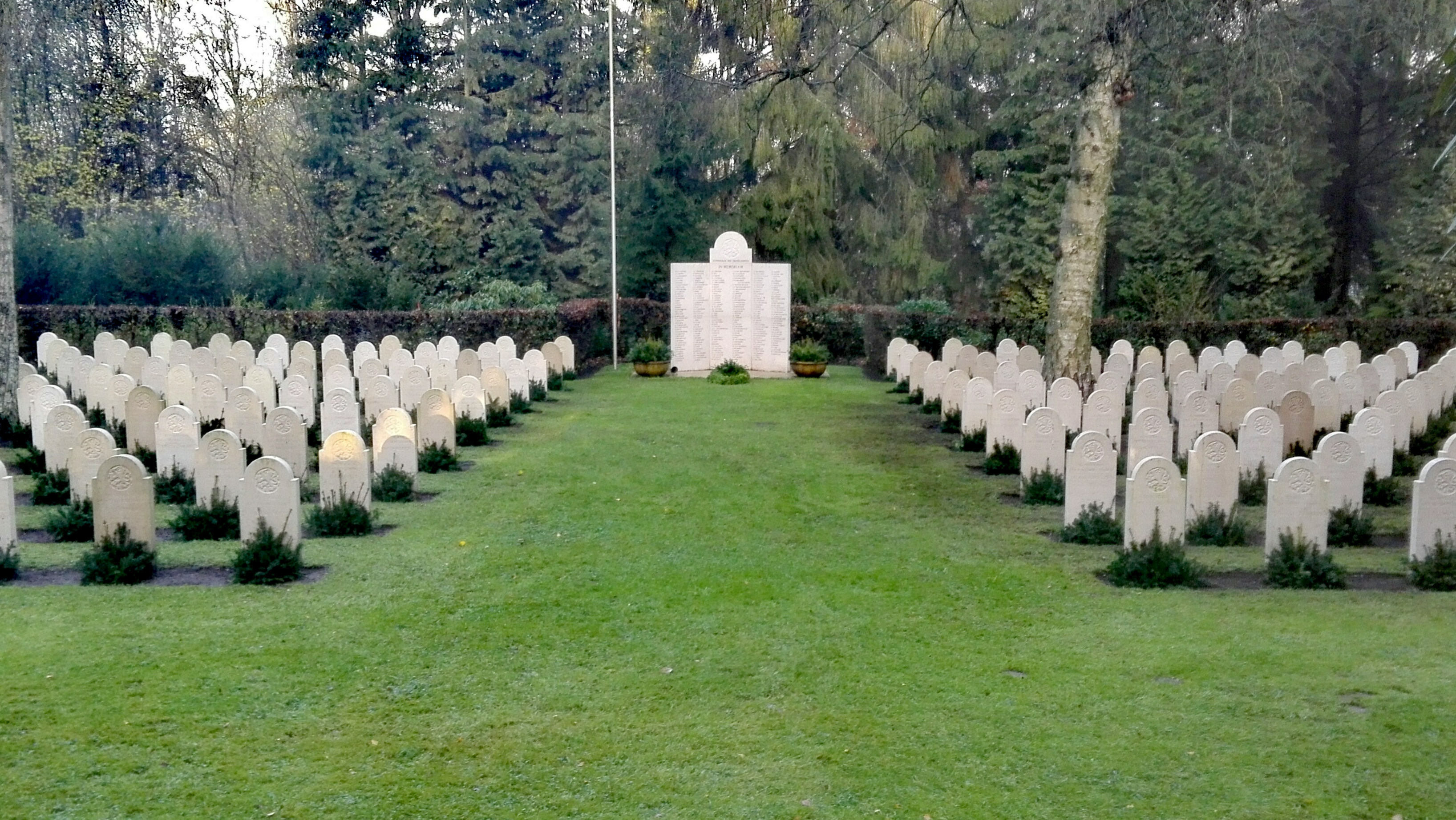 Nederlands Ereveld Lübeck within Vorwerker Friedhof. Rows of graves.